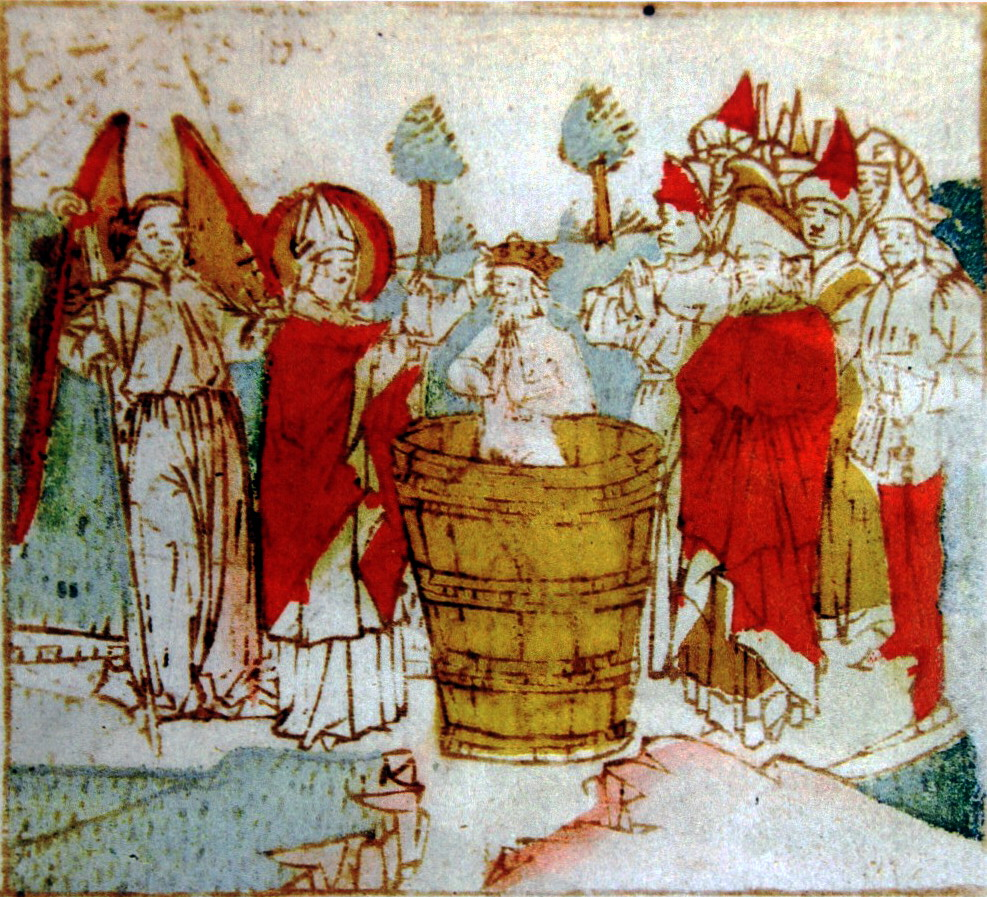 Scene from the life of Saint Servatius according to legend. Here: Attila, king of the Huns, baptized by Servatius. Drawing in a manuscript of ±1460 of the so-called Blokboek van Sint Servaas (Brussels, Royal Library)